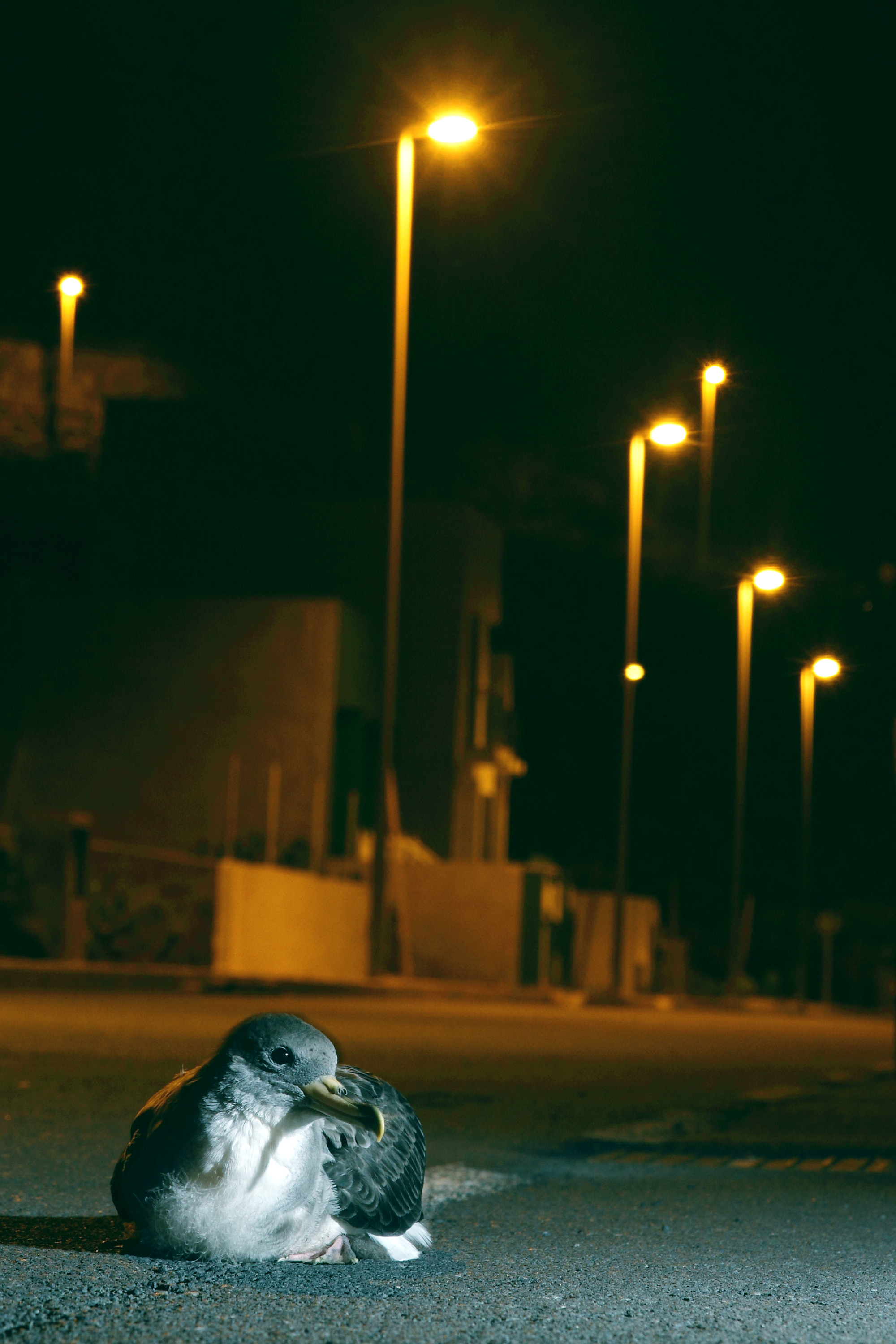 One of the most critical phases in the life of a nesting-burrow petrel is fledging. At this moment, birds have to leave their nests, where they were born and grown, and fly for first time to sea normally at night. Unfortunately thousands of fledglings are disoriented by artificial lights around the world in archipelagos as Hawaii, Azores or Canary Islands. Once birds are grounded they are unable to take off again and susceptible to death by vehicle collisions, starvation, dehydration or predation by introduced predators. To mitigate light pollution-induced mortality rescue campaigns are conducted every fledging season by local governments or NGOs asking for implication of the general public. Thanks to this effort about 90% of rescued birds are successfully released into the wild, giving them a second chance. This Cory's Shearwater Calonectris borealis fledgling picture was taken while researching factors of light pollution-induced mortality in Tenerife, Canary Islands.